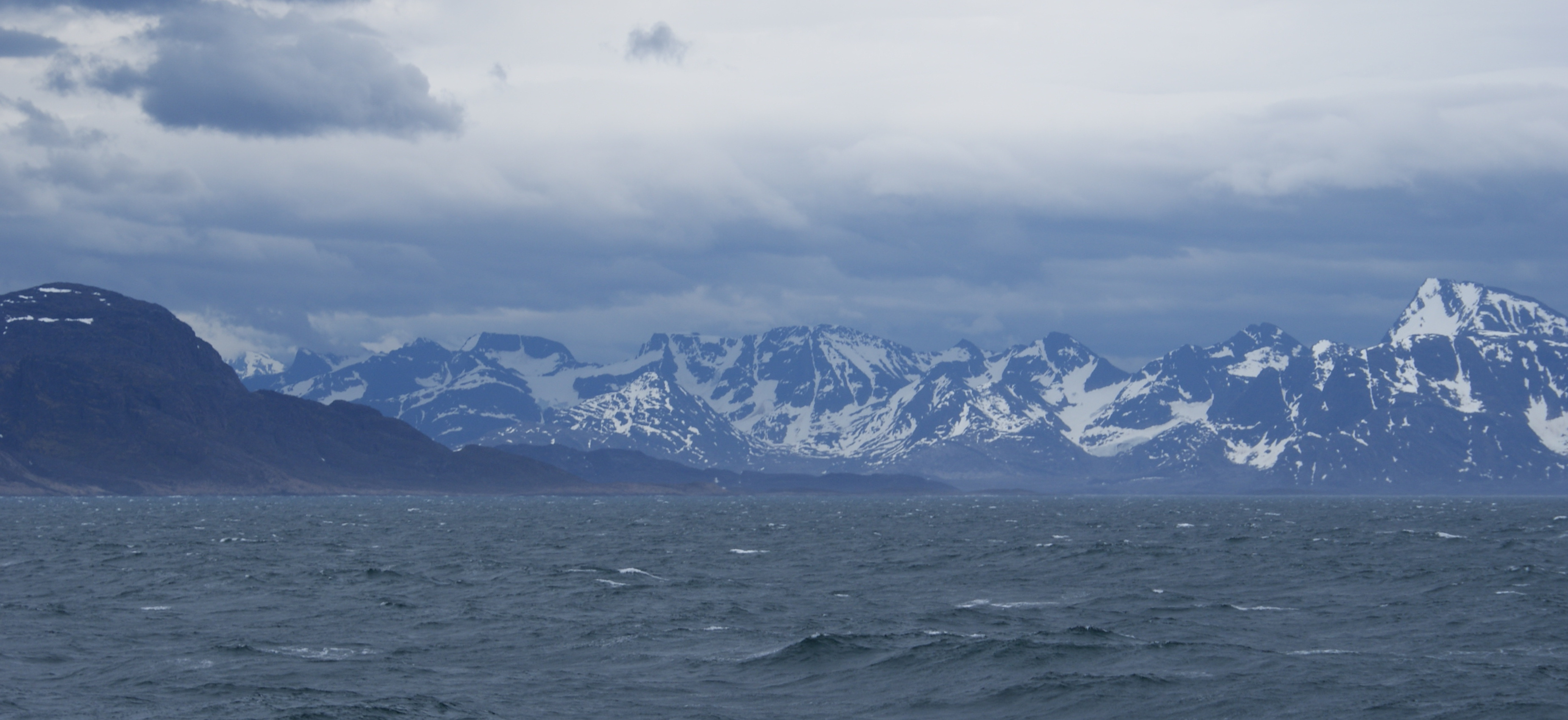 The mouth of Kangerlussuaq Fjord, Greenland. Photographed in bad weather from the Sarfaq Ittuk ship of Arctic Umiaq Line during the Sisimiut-Kangaamiut voyage alongside the coast of Davis Strait. The photo has been rotated and cropped (the waves were often high and I found myself slipping and riding alongside the railing).